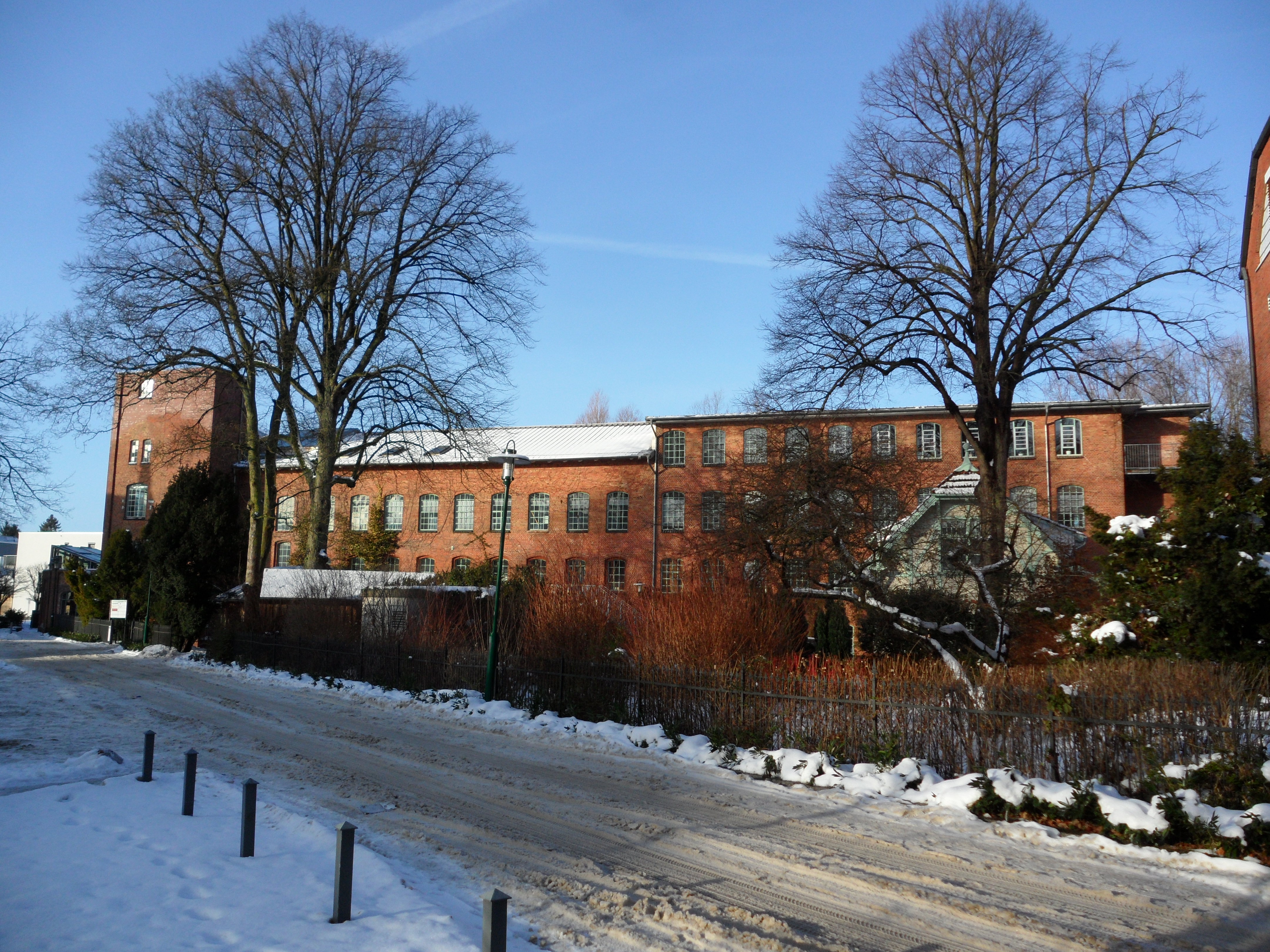 The historical building of the former Papierfabrik in Neumünster